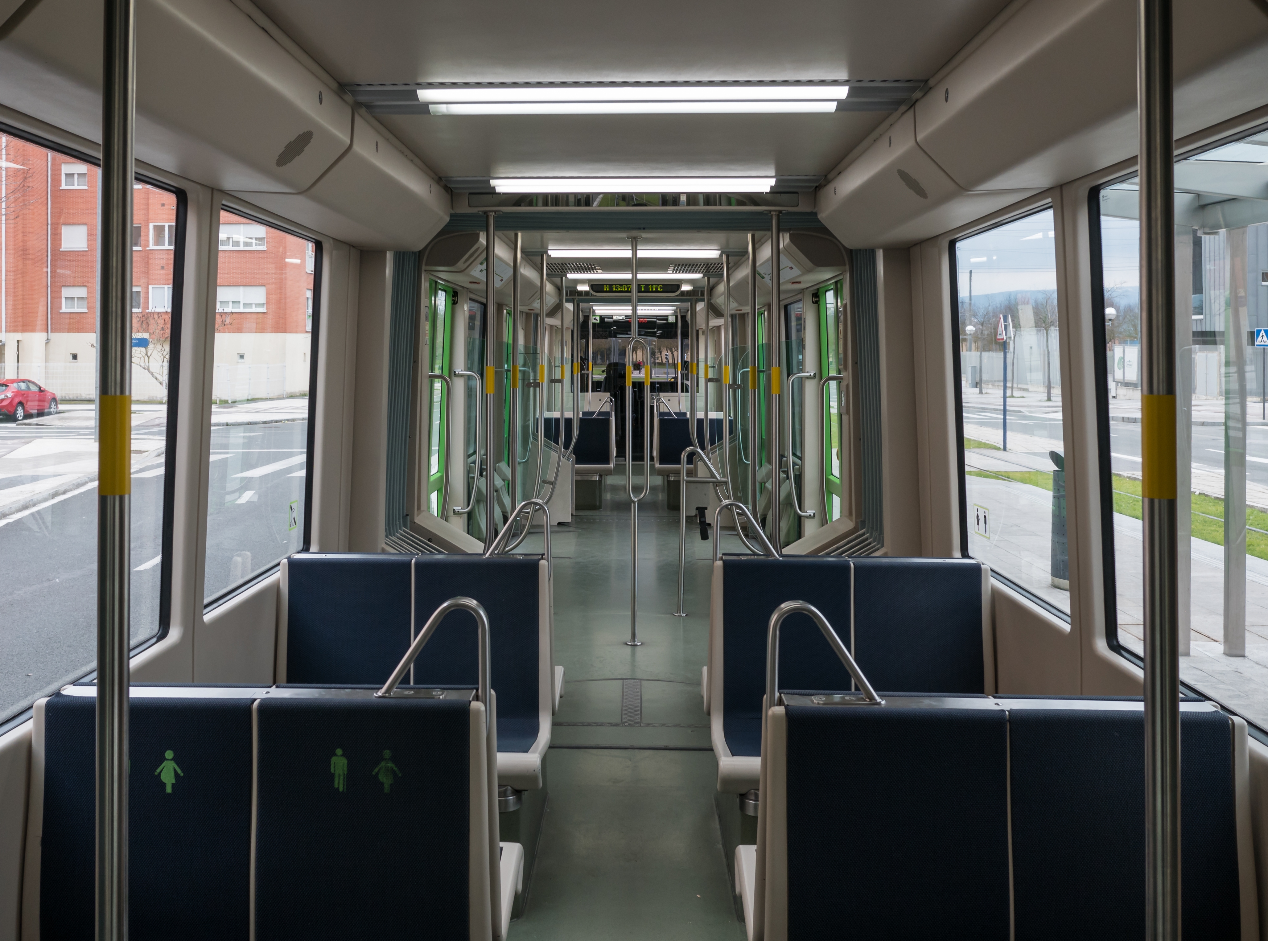 Interior of the tram of Vitoria-Gasteiz. Basque Country, Spain